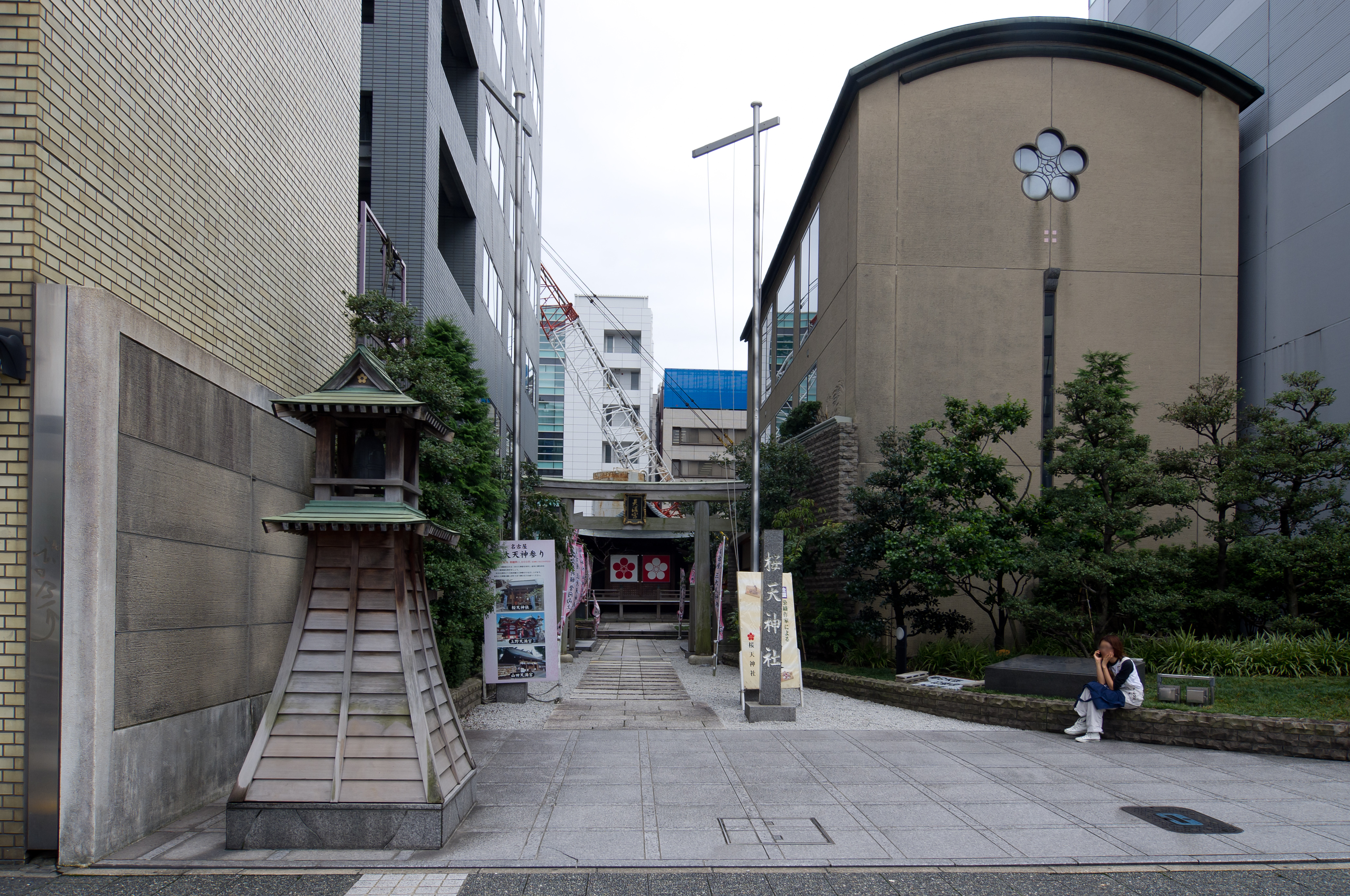 Sakura Tenjin-sha (Naka-ku, Nagoya, Aichi, Japan)